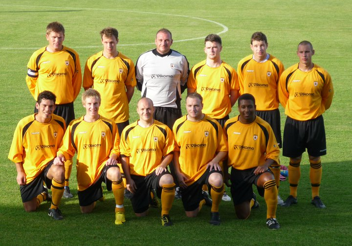 Isle of Wight official football team, starting IOW football X1 for 2011 Island games final vs Guernsey.